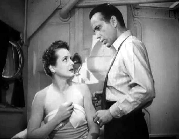 Mary Astor and Humphrey Bogart in Across the Pacific (1942) - trailer (cropped screenshot)